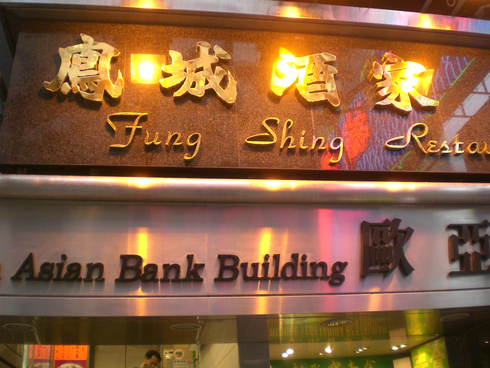 旺角#749 Nathan Road, Prince Edward, Mong Kok, Hong Kong